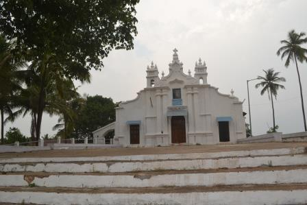 st.sebastian chapel at loutolim